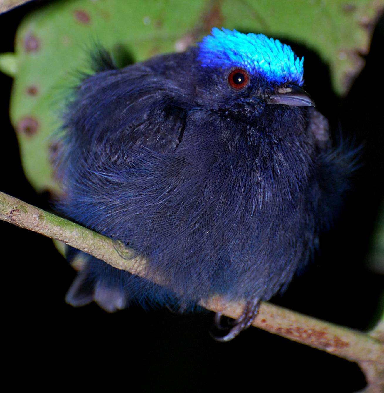 Lepidothrix coronata. Roosting bird, Yasuni National Park, Orellana, Ecuador